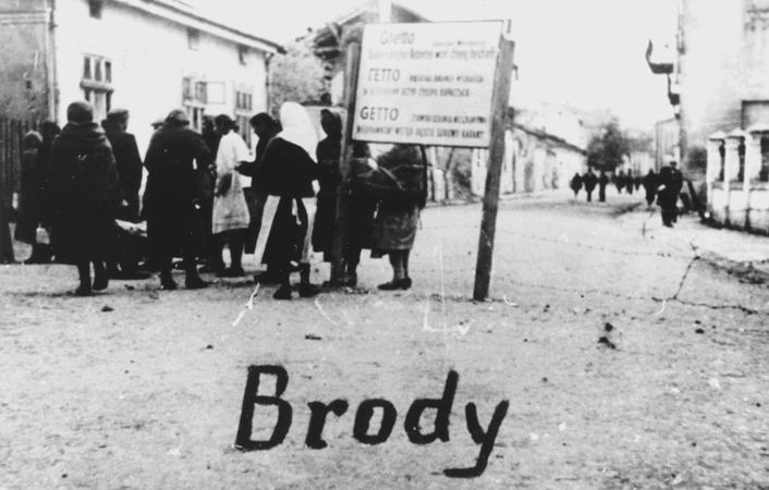 The entrance to the Jewish ghetto in Brody (western Ukraine), formed by German Nazis to separate the local Jews into a special quarter, later to be exterminated. In Jan. 1943, Brody Ghetto housed 6.000 Jews.